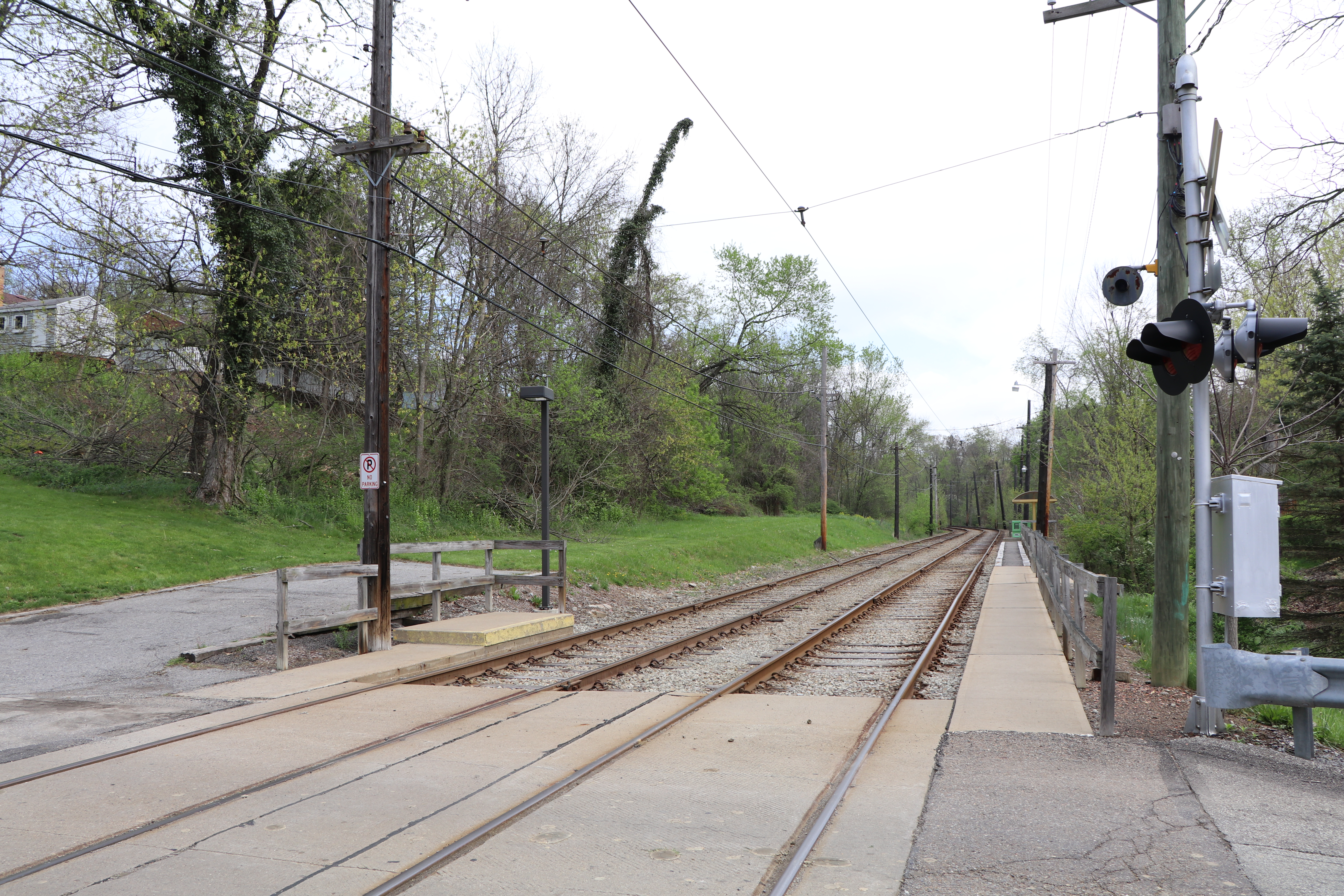 Sarah station on the Blue Line, Bethel Park, PA. View looking north, with the inbound platform on the right.